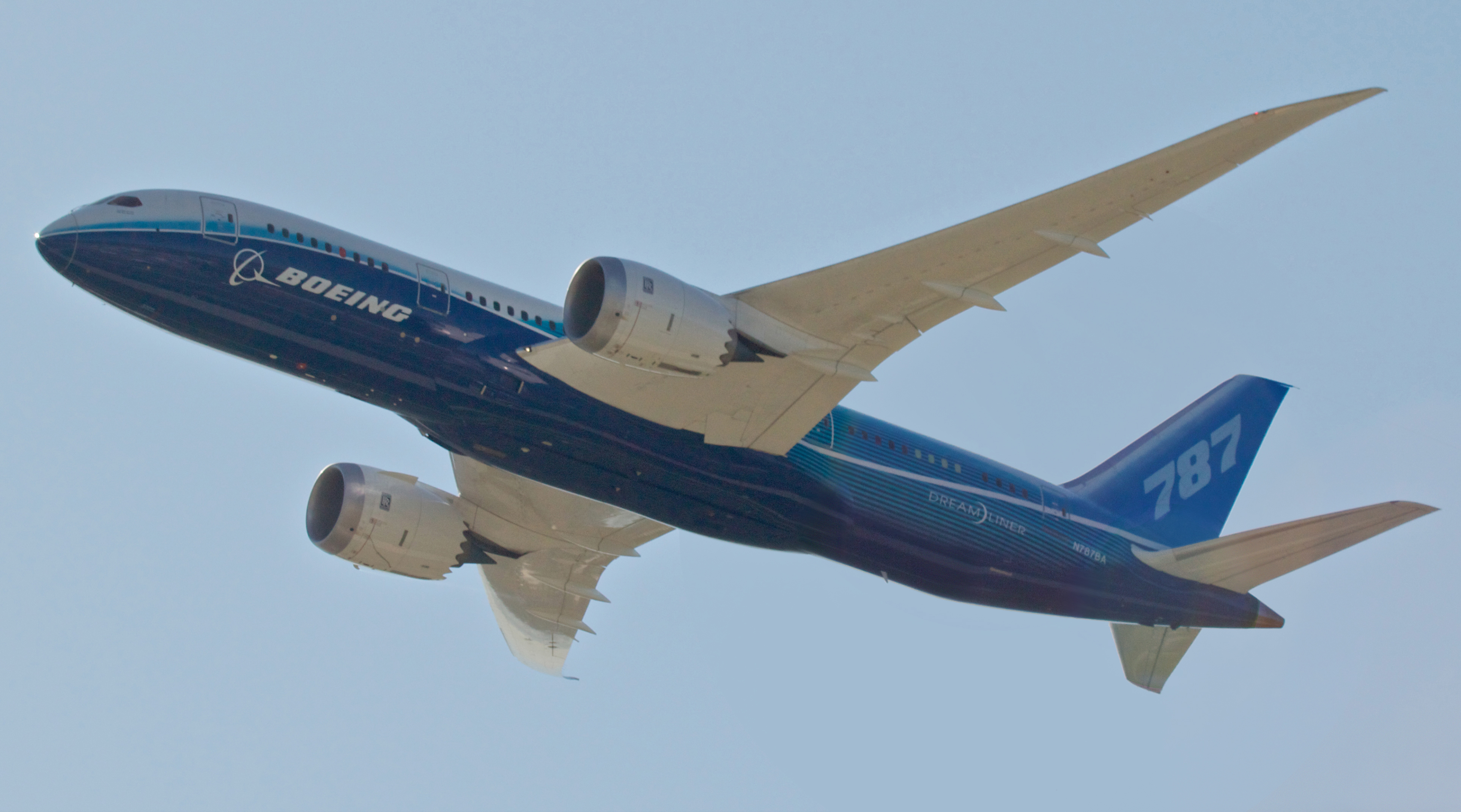 787 Arrival at Wisconsin Airventure 2011